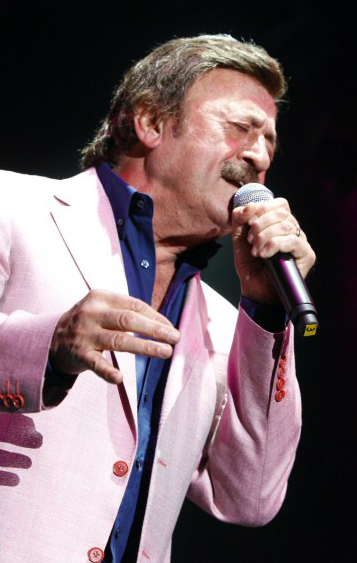 Selami Sahin in a concert in Turkcell Kuruçeşme Arena, İstanbul, 2012.